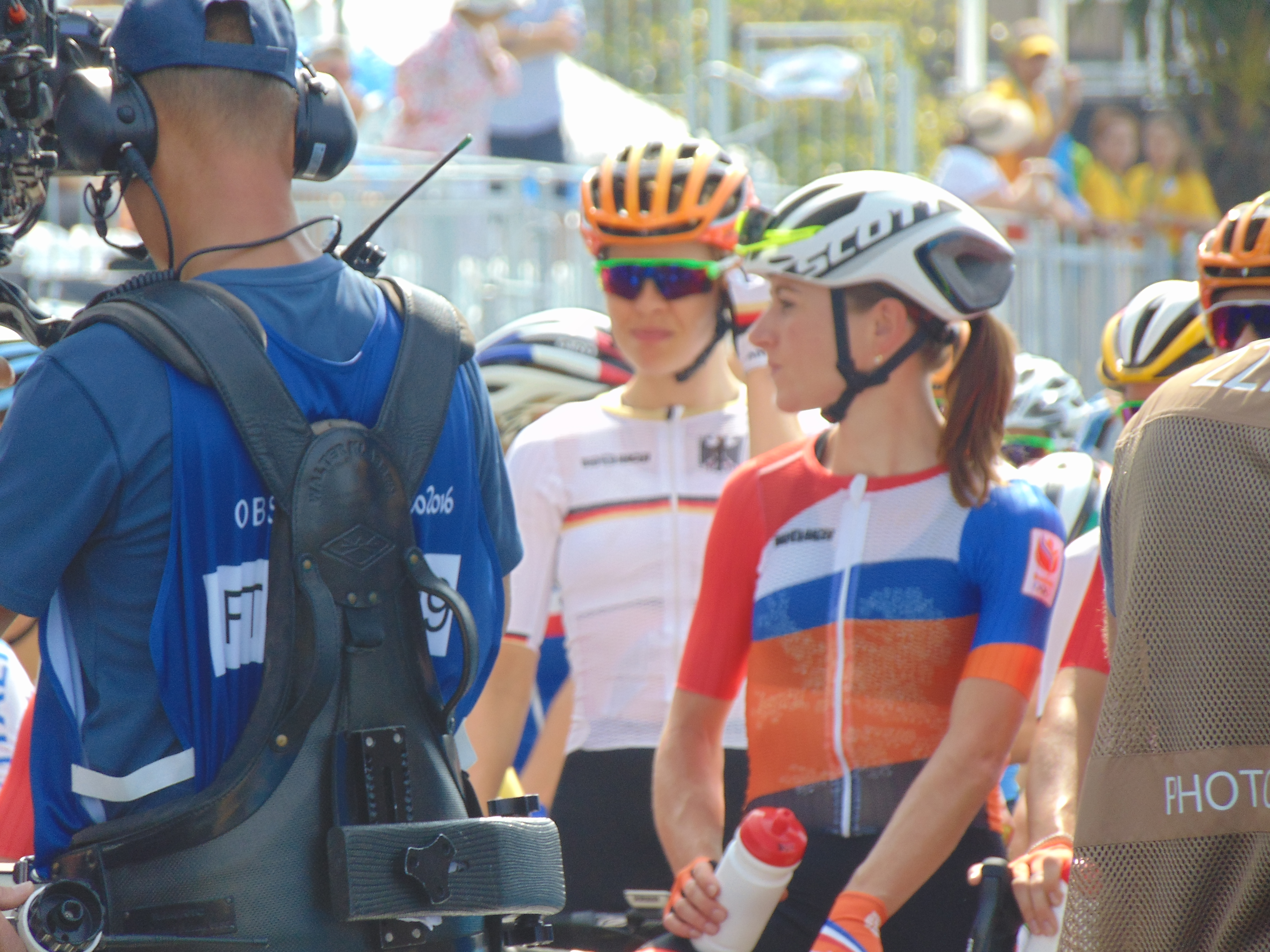 Rio 2016 - Road cycling women's road race